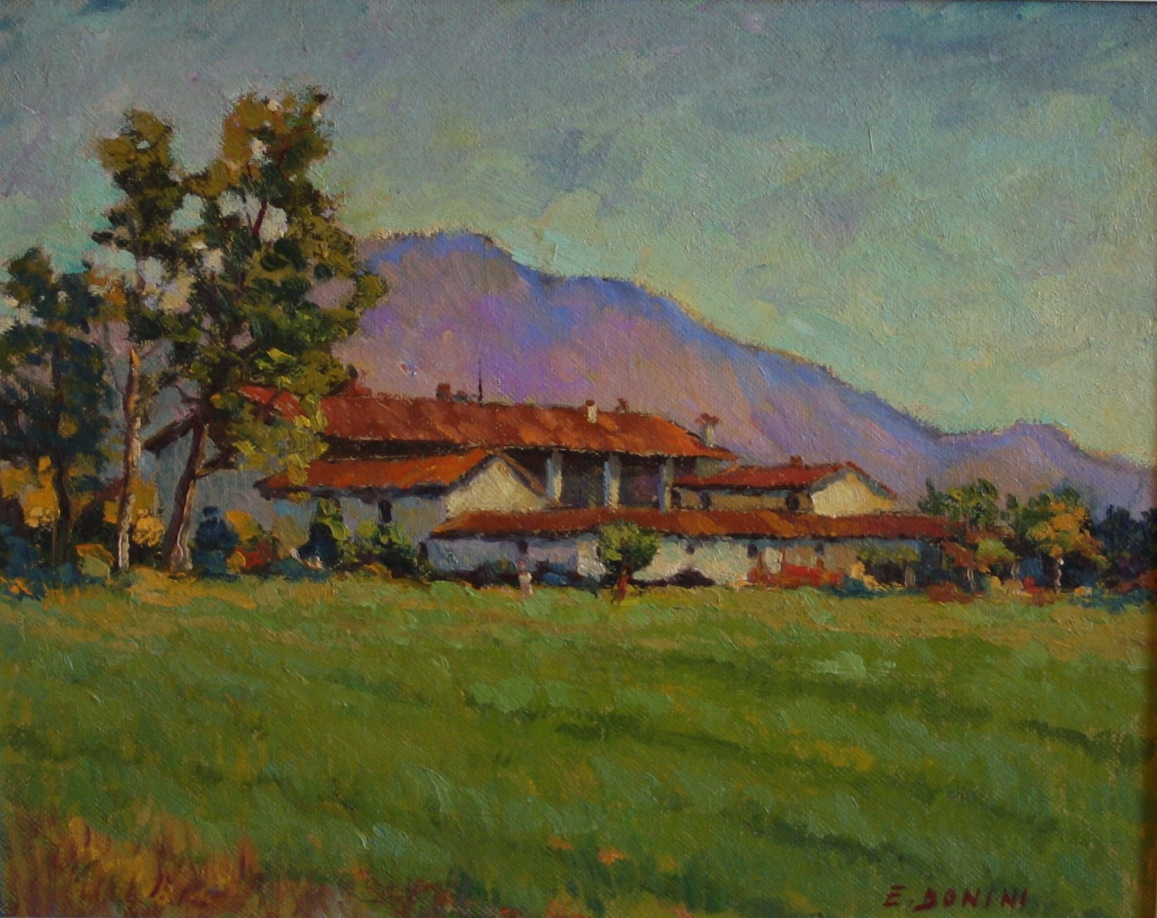 Ettore Donini paesaggio 1